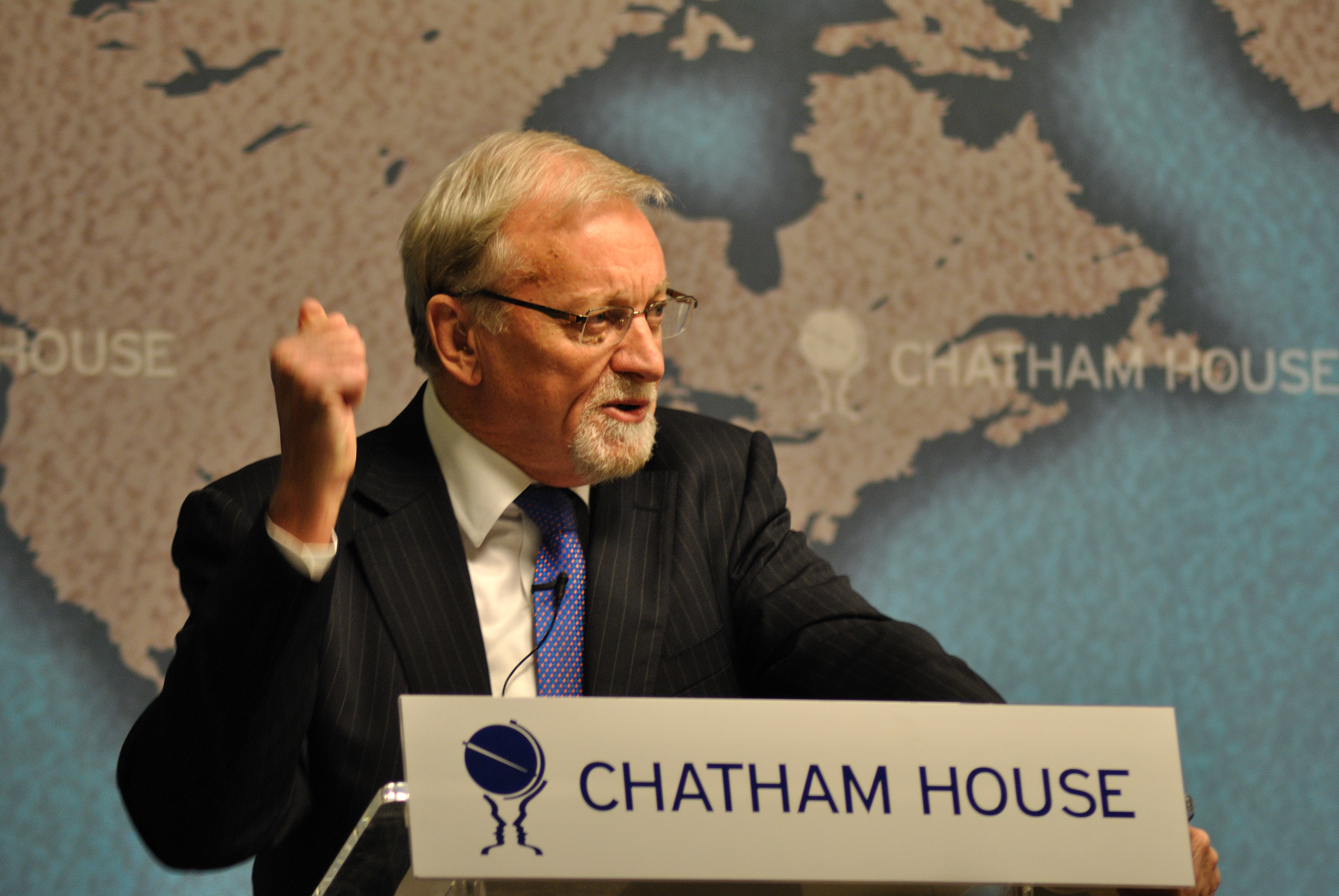 Responding to Mass Atrocity Crimes: The 'Responsibility to Protect' After Libya, 6 October 2011